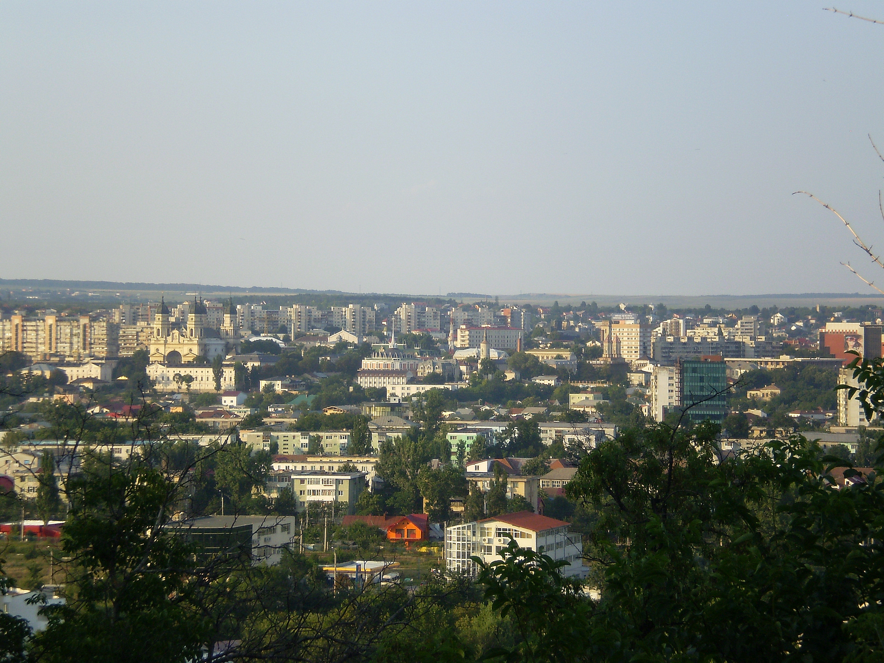 Iasi , panoramic view to the center , Metropolitan Orthodox Cathedral and Catholic Cathedral , Iaşi, Romania